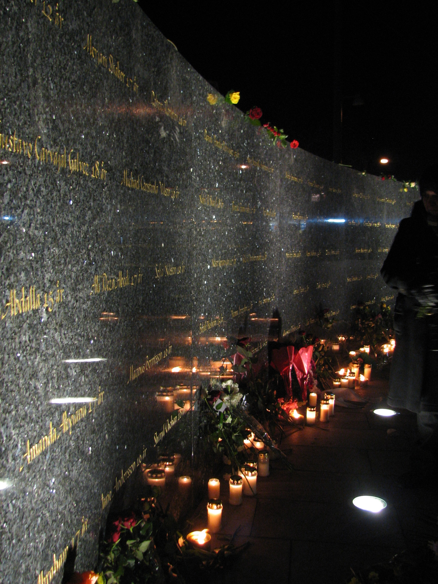 The just unveiled monument at Backaplan, Goteborg, Sweden, by Claes Hake in memory of the 63 young people who died in the flames in a discoteque exactly 10 years before.